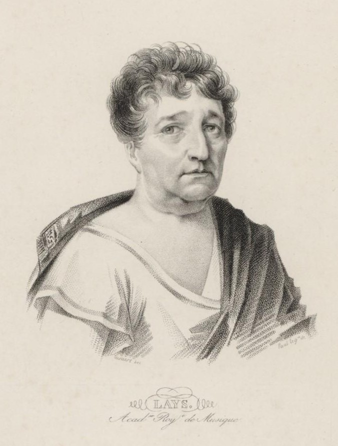 "Lays, Académie royale de musique": Portrait of the singer François Lay|François Lays (1800)